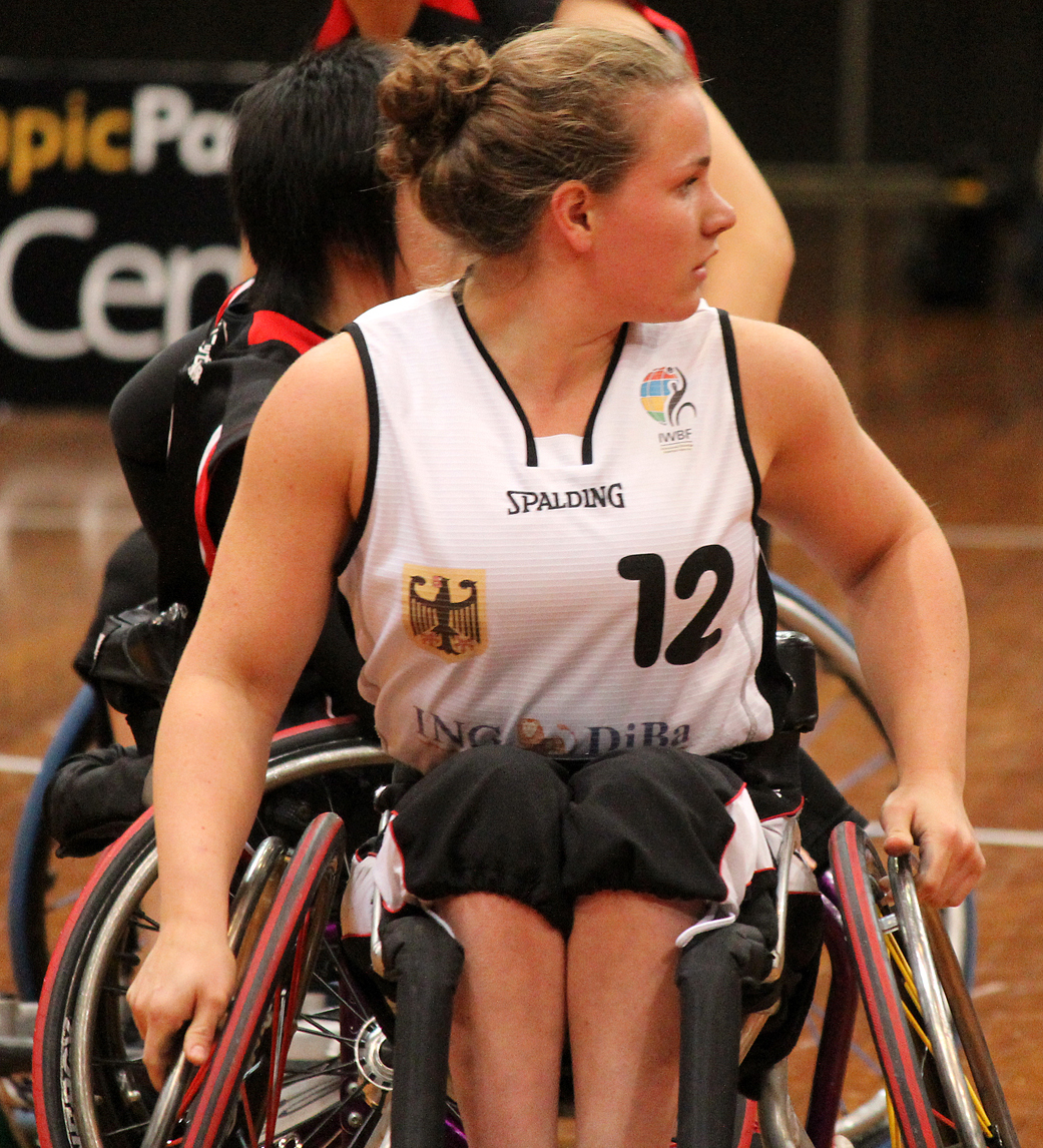 Germany's Annabel Breuer at the Germany vs Japan women's wheelchair basketball team at the Sports Centre.